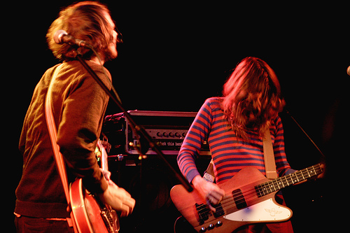 Silversun Pickups playing on "The Crocodile Cafe" in Seattle.